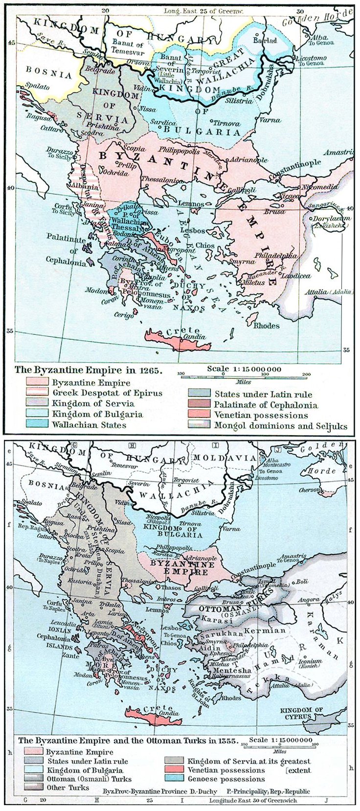 Map of Balkans between 1265 & 1355: just File:Balkans 1265.jpg and File:Byzantine empire 1355.jpg together